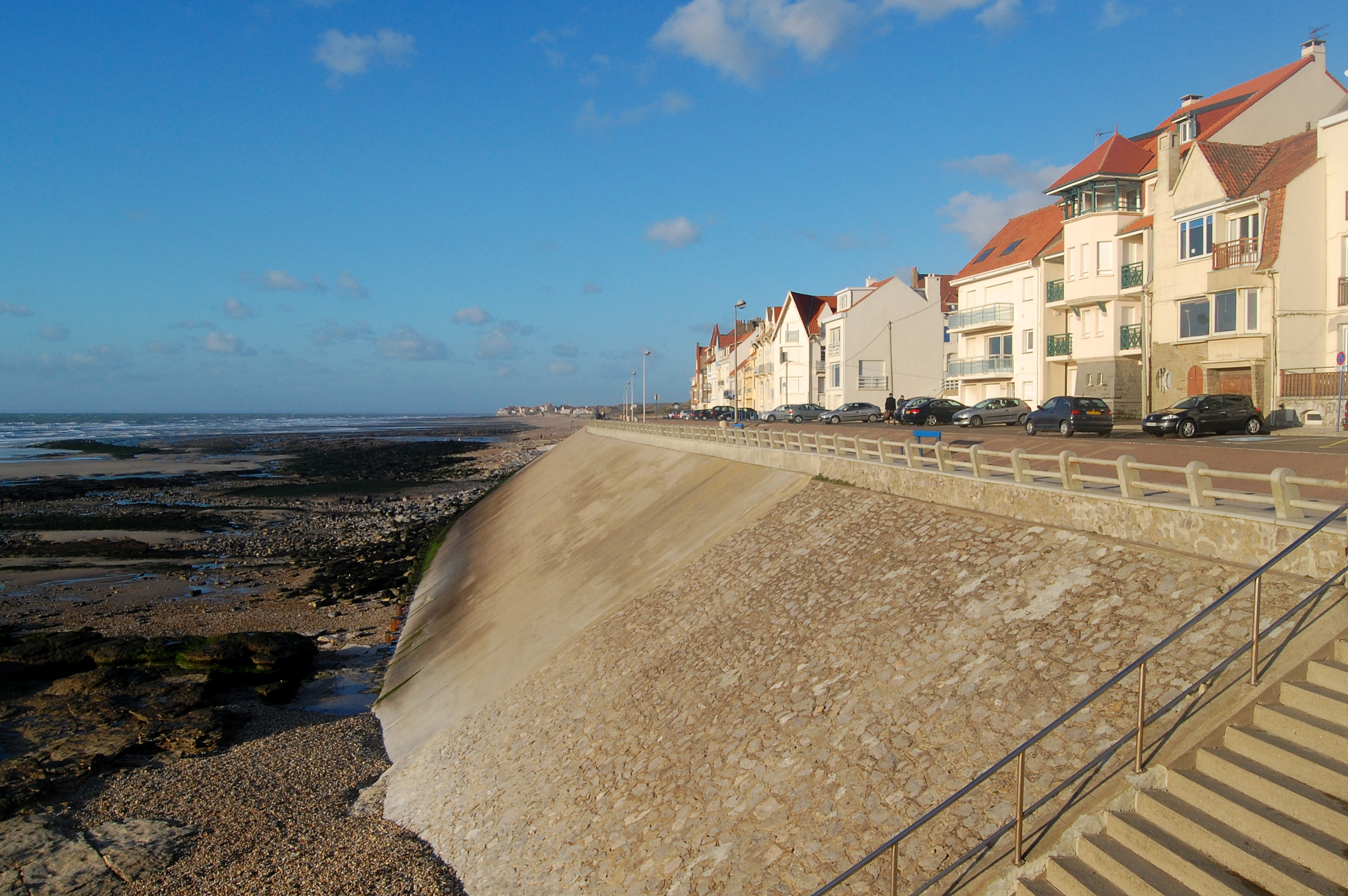 Ambleteuse, Pas de Calais, France